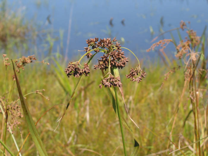 Scirpus ancistrochaetus Schuyler - northeastern bulrush